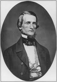 Charles E. Galpin, second husband of Eagle Woman